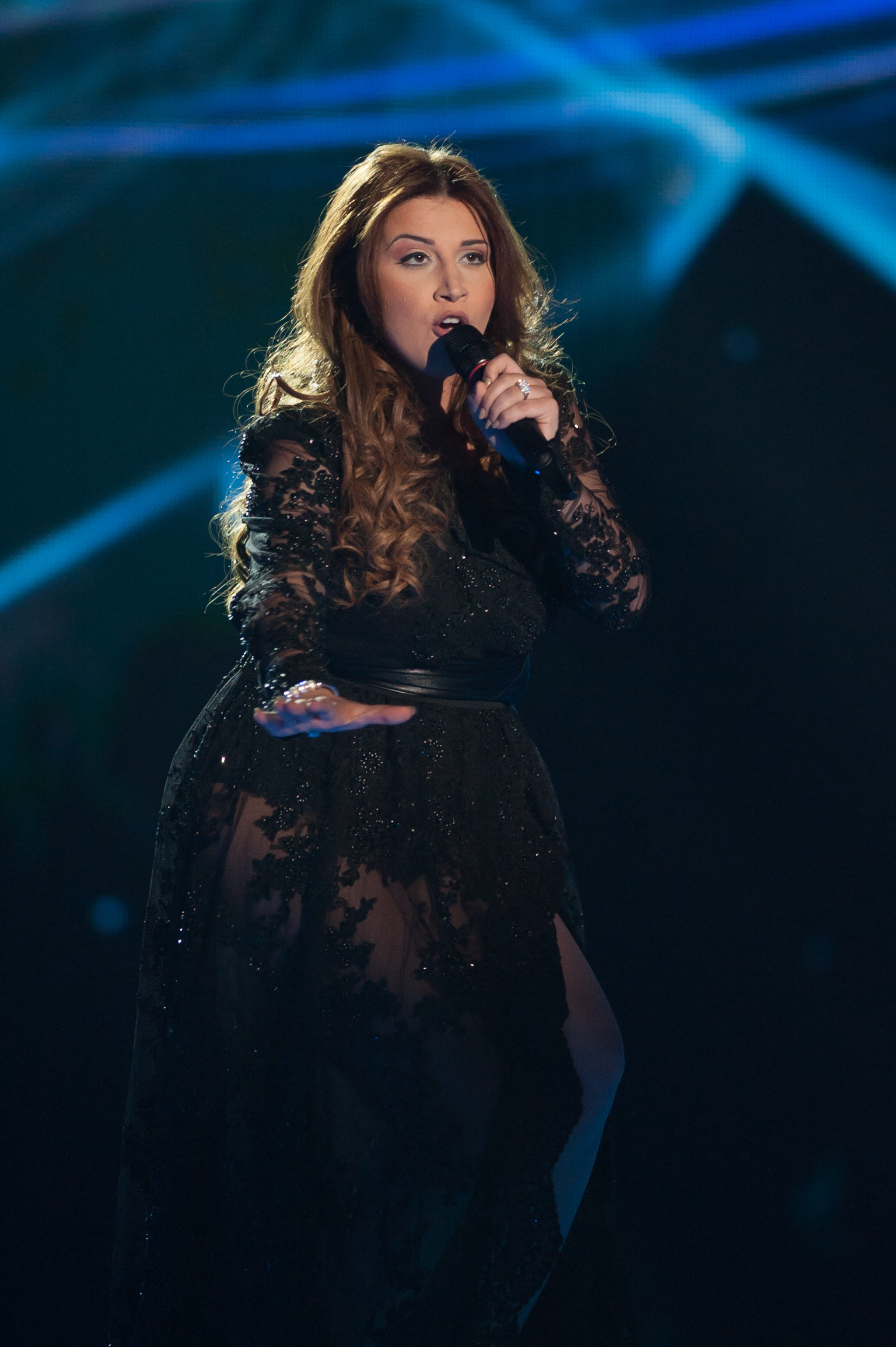 Eurovision Song Contest Vienna 2015: Amber